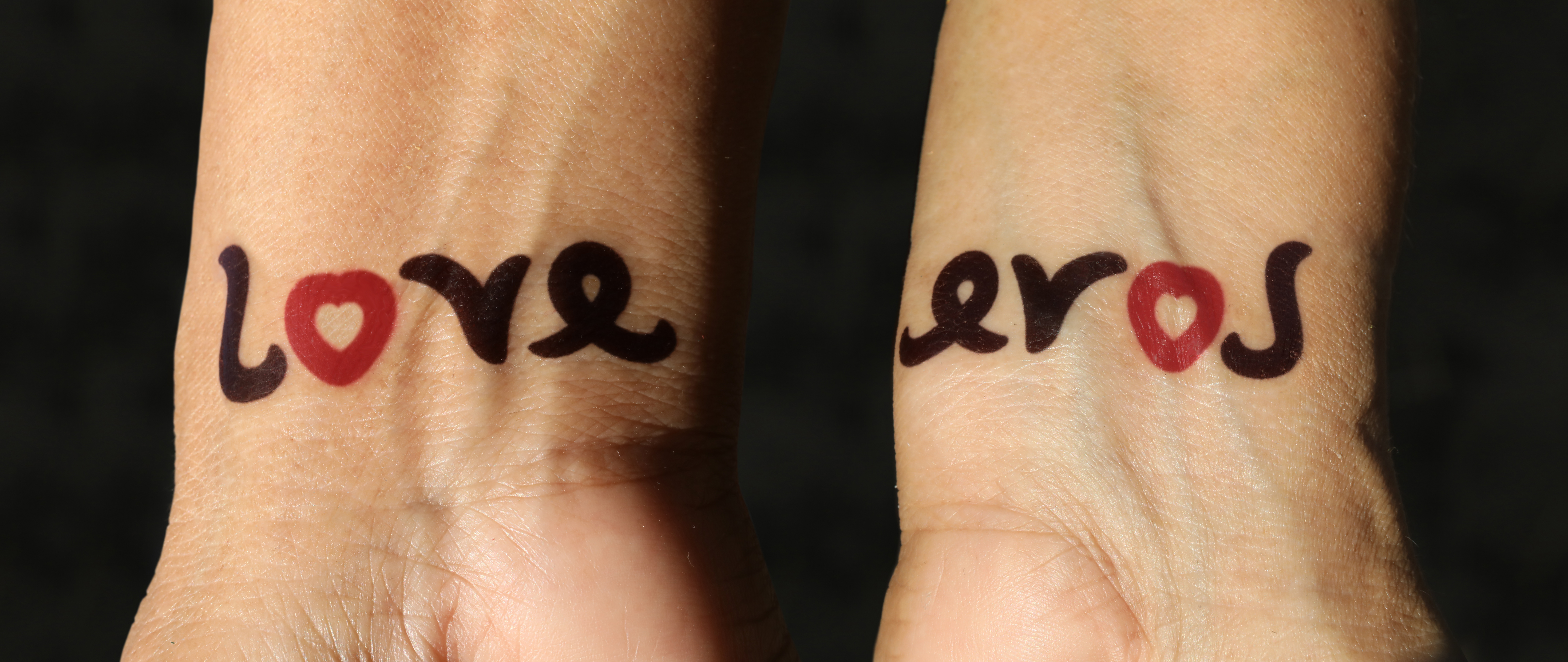 Ambigram tattoo Love / Eros, one word on each wrist. Mirror symmetry (vertical axis). Design with a red heart symbol for the letter O in both words. Eros (concept) is one of the four ancient Greco-Christian terms which can be rendered into English as "love" (the other three are storge, philia, and agape). Eros refers to "passionate love" or romantic love. The term erotic is derived from eros. Eros has also been used in philosophy and psychology in a much wider sense, almost as an equivalent to "life energy". Decal-style temporary tattoo.